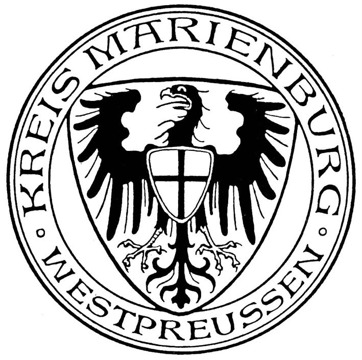 Coat of Arms of former Marienburg County